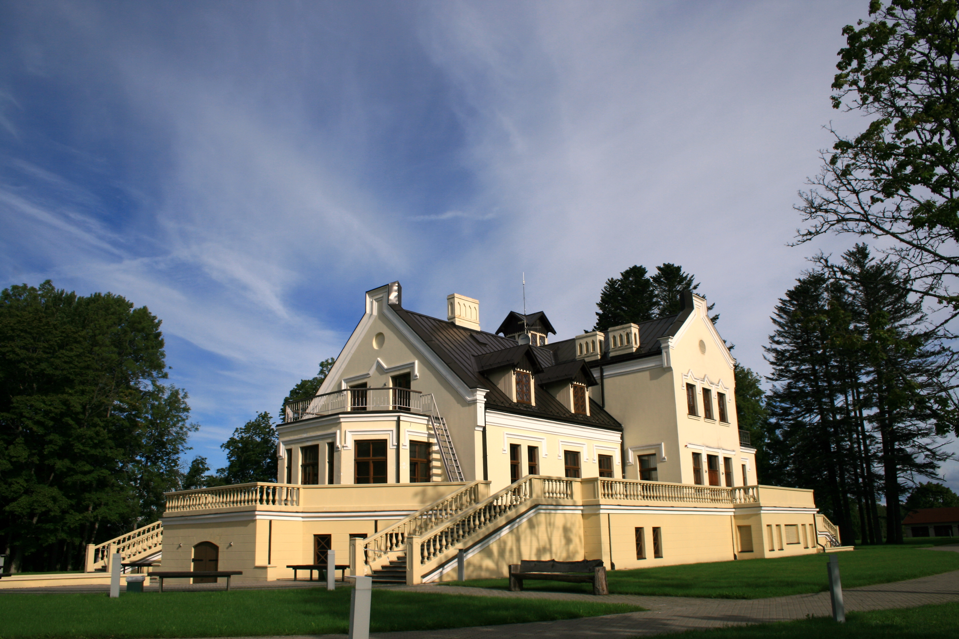 Boja ManorLatviešu: Boju muižas pils